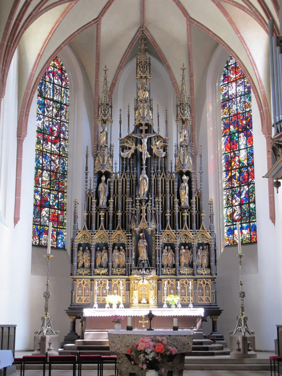 Burghausen: Parish Church St.Jakob, Lord's table